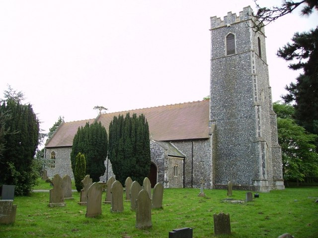 All Saints' parish church, Worlingham, Suffolk, seen from the north